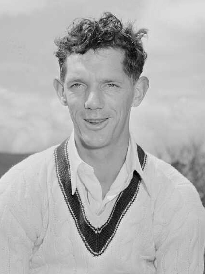 Members of the Australian Cricket Team, Johnson and Hayward, photographed in 1950 by an Evening Post photographer.